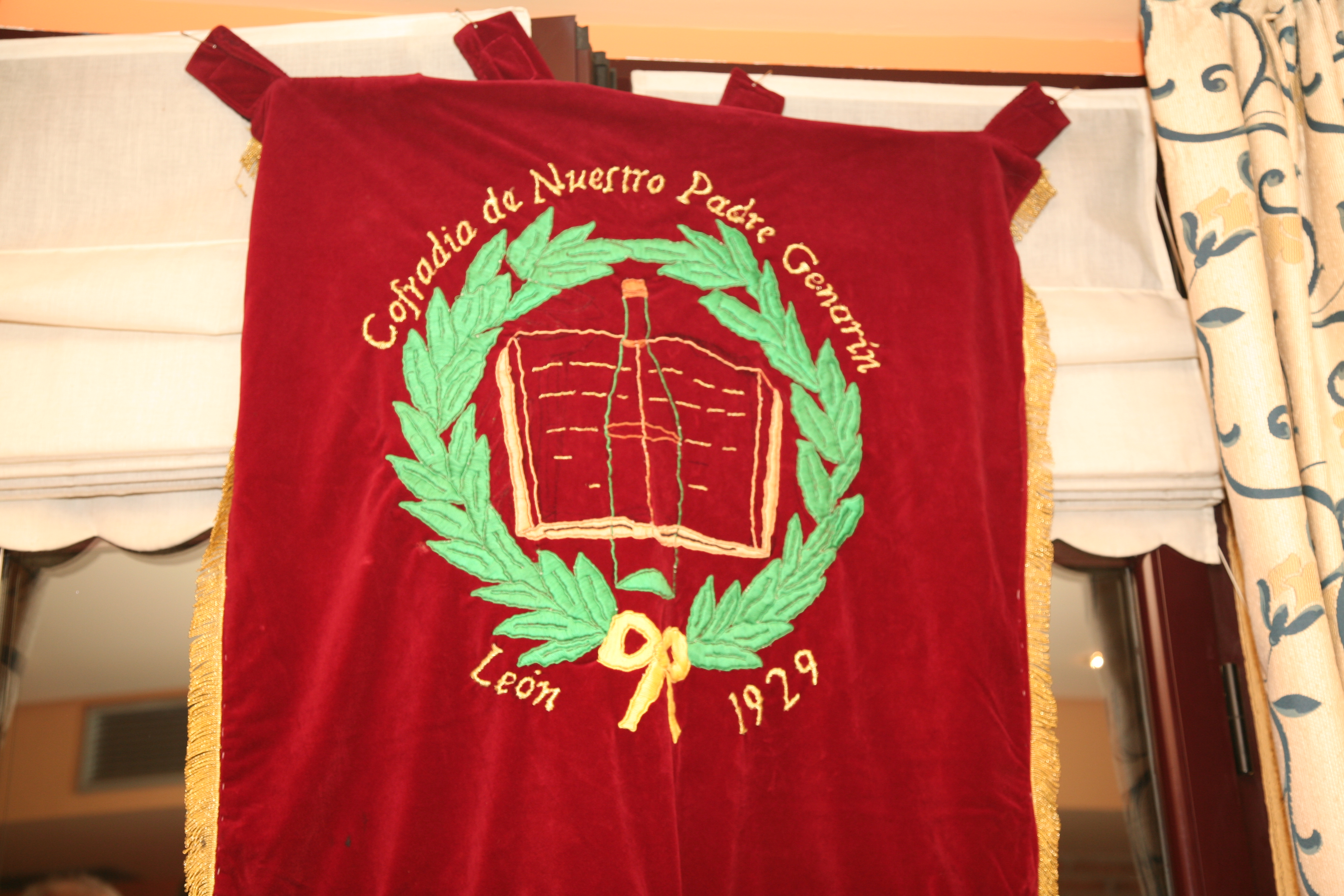 Escudo de la Cofradía de Nuestro Padre Genarín